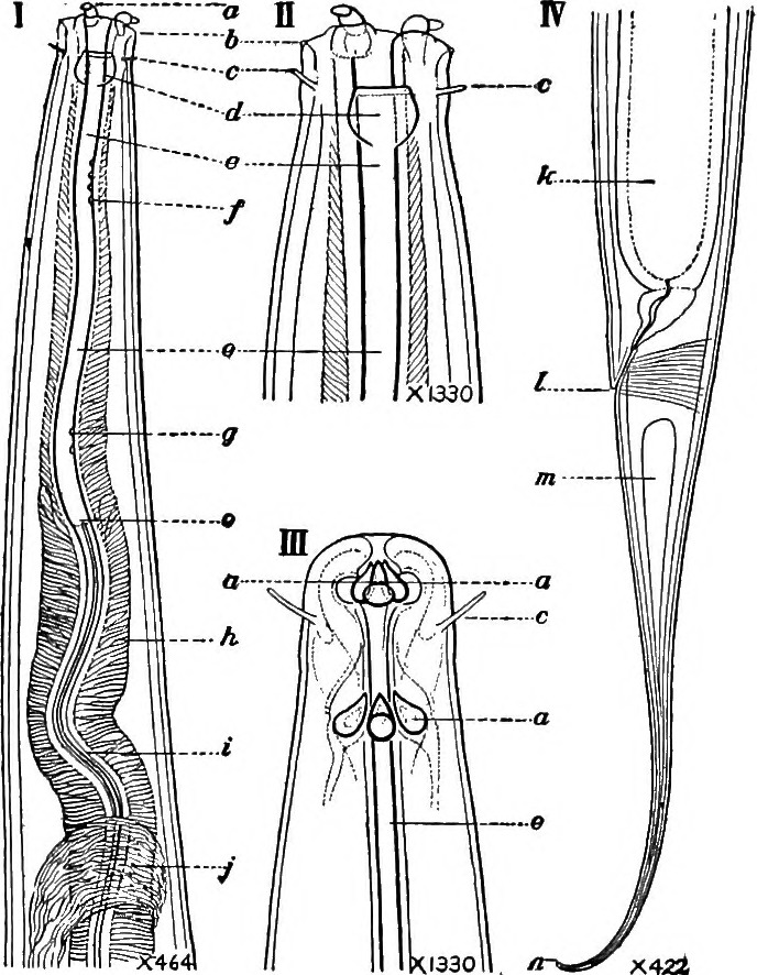 Fig. 781. Ironus americanus. I, head and anterior portion of neck; II, head, lateral view "teeth" extruded; III, head, " teeth " withdrawn with second set formed in preparation for the next moult; IV, tail end of female. a, one of the three pharyngeal teeth, shown extruded; b, papilla; c, cephalic seta; d, amphid; e, pharynx; j, toothlet; g, toothlet; k, esophagus; i, lining of esophagus; j, nerve-ring; k, intestine; l, anus; m, caudal gland; n, terminus. (After Cobb.)